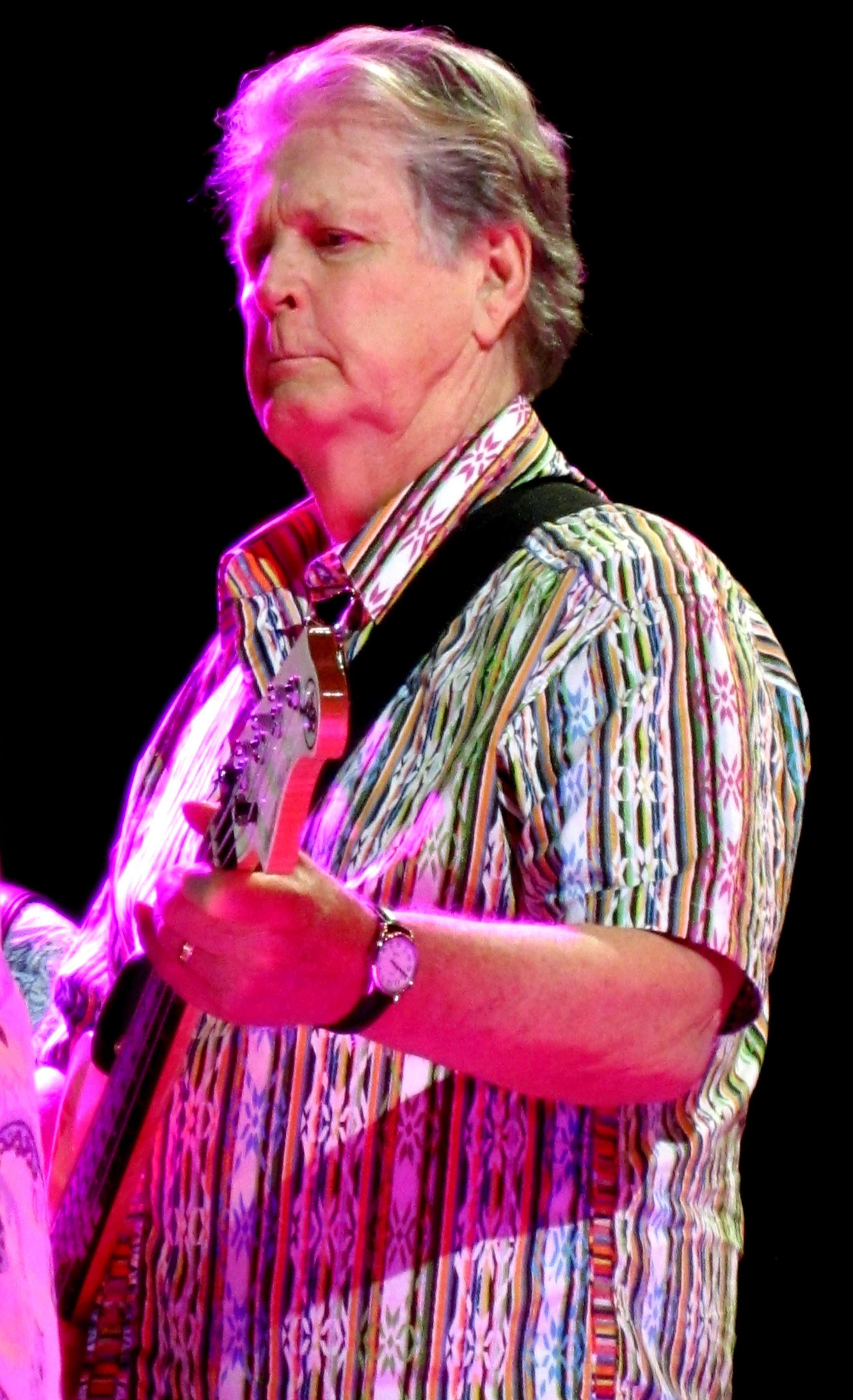 Brian Wilson playing bass during the Beach Boys Reunion Tour 2012